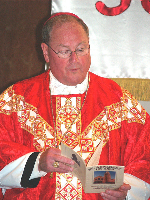 Timothy Dolan, Roman Catholic Archbishop of New York